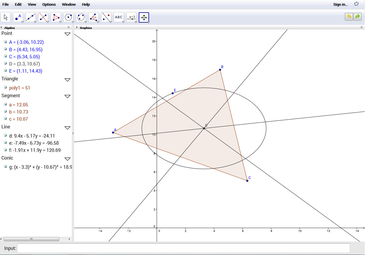 Triangle with perpendicular bisectors created using Geogebra geometry software.